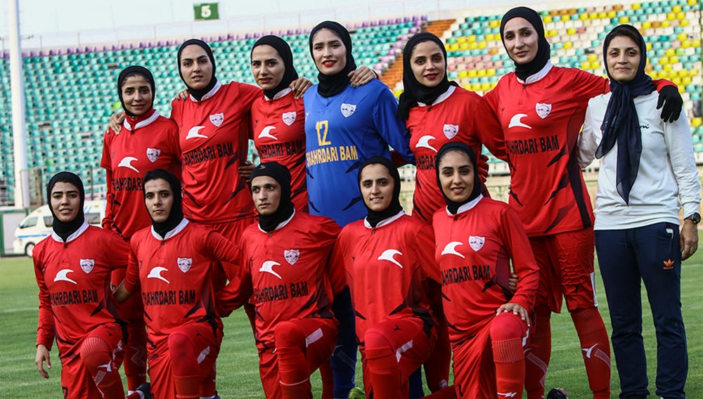 Iranian Football League 1397-98, Last game. Bam vs. Zob Ahan